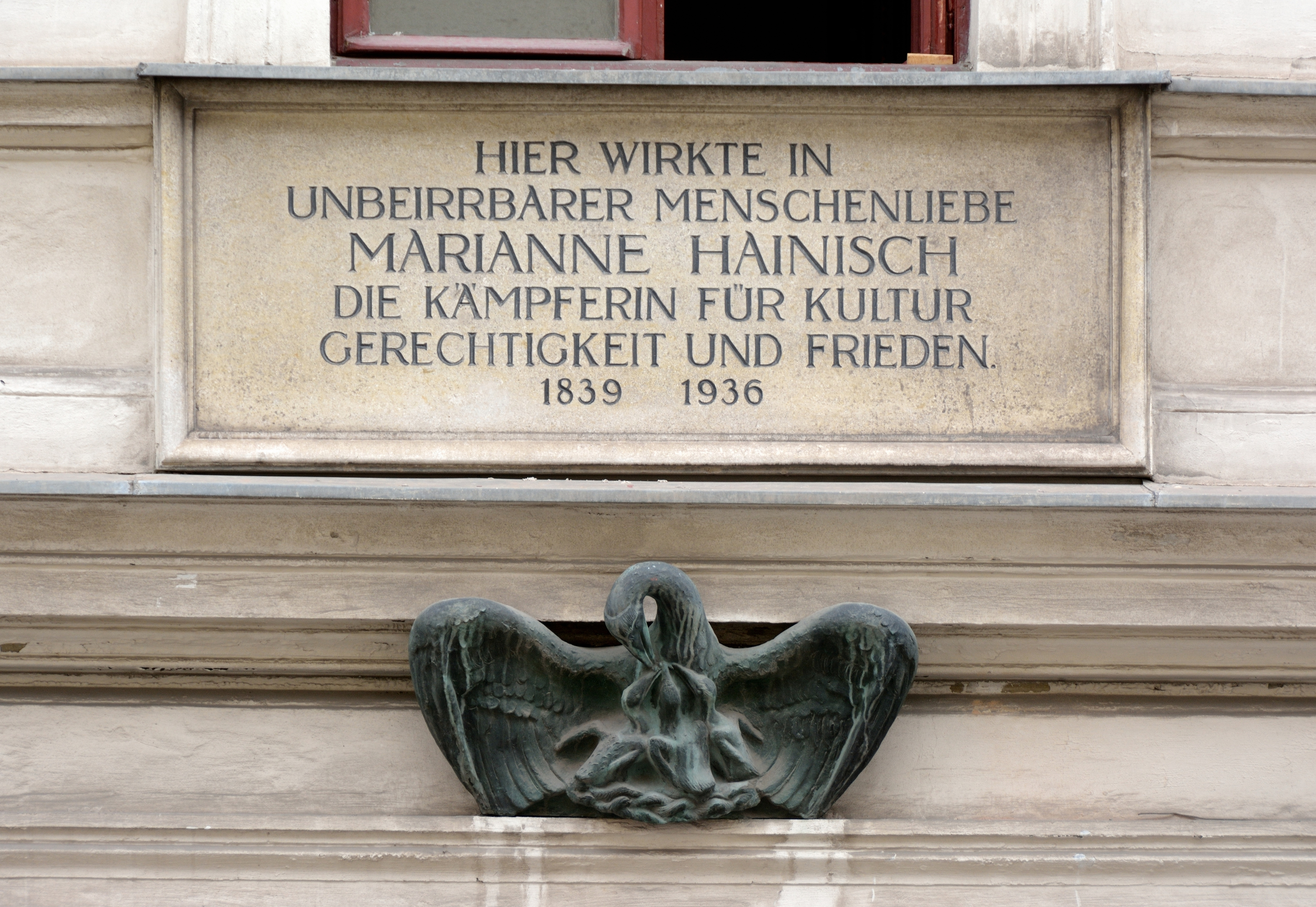 Plaque commemorating Marianne Hainisch, Rochusgasse 7, 3rd district of Vienna